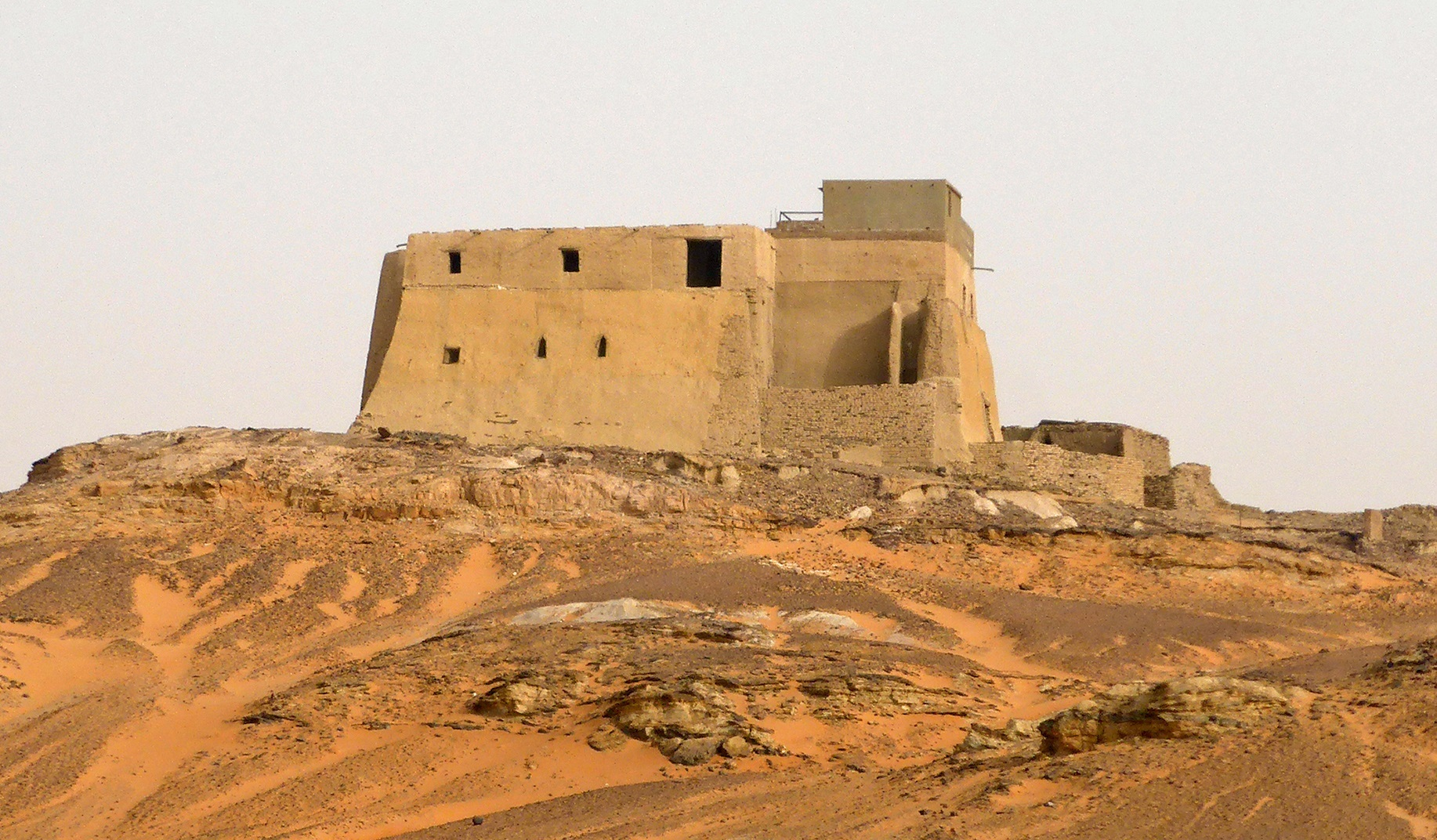 Throne hall of Dongola. Original